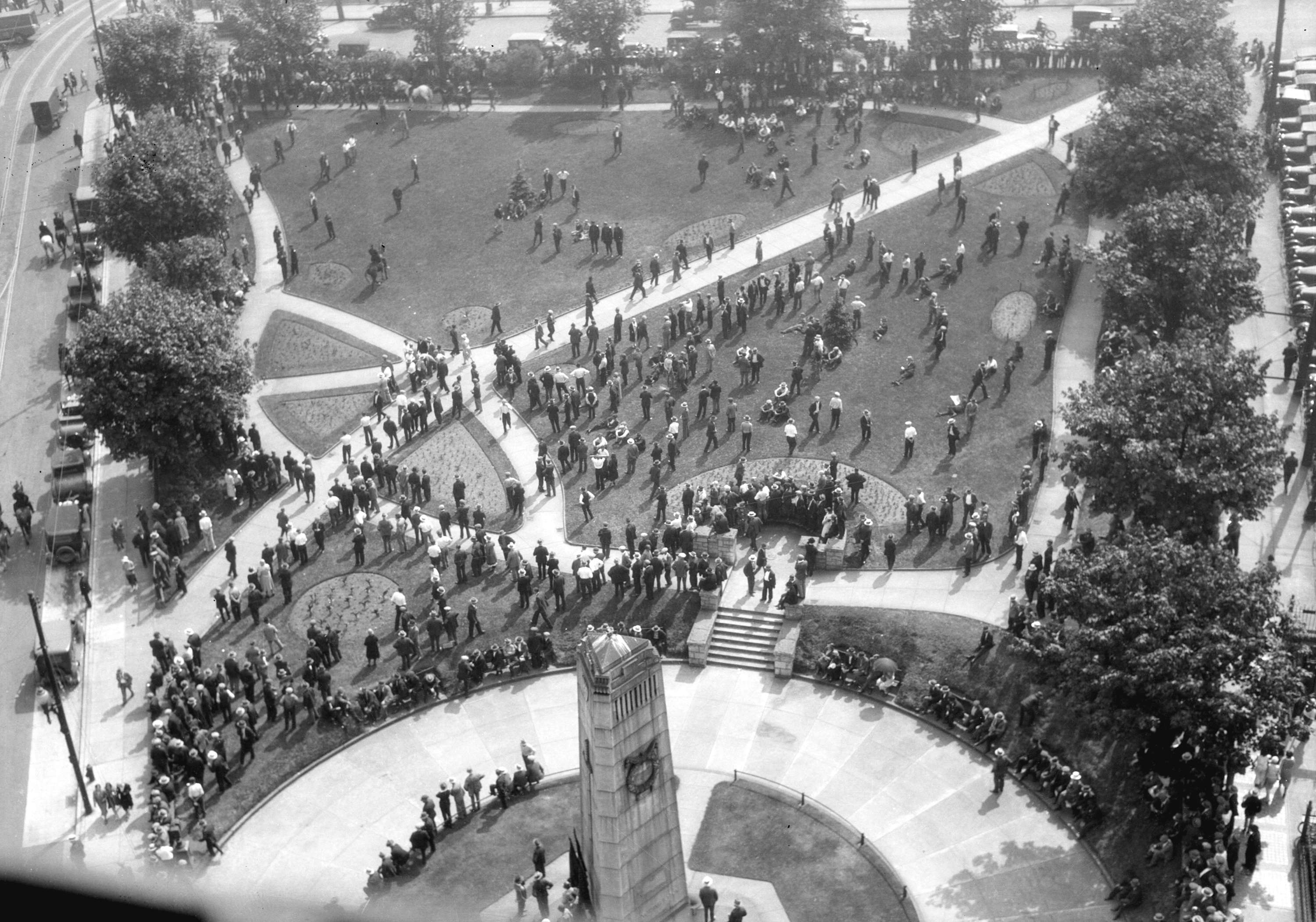 Police dispersing a demonstration of the unemployed at Victory Square in Vancouver, July 1932.